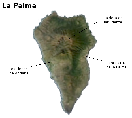 a simple map of the island La Palma